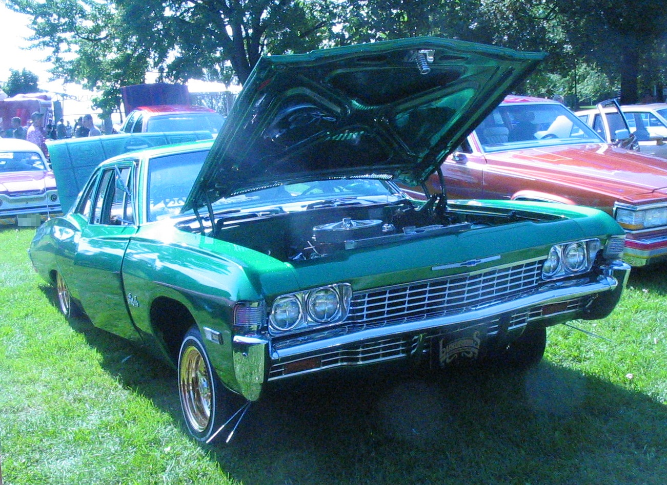 1968 Chevrolet Bel Air photographed in Montreal, Quebec, Canada at the 5th annual Lowrider Luxurious Montreal Club BBQ 2011.